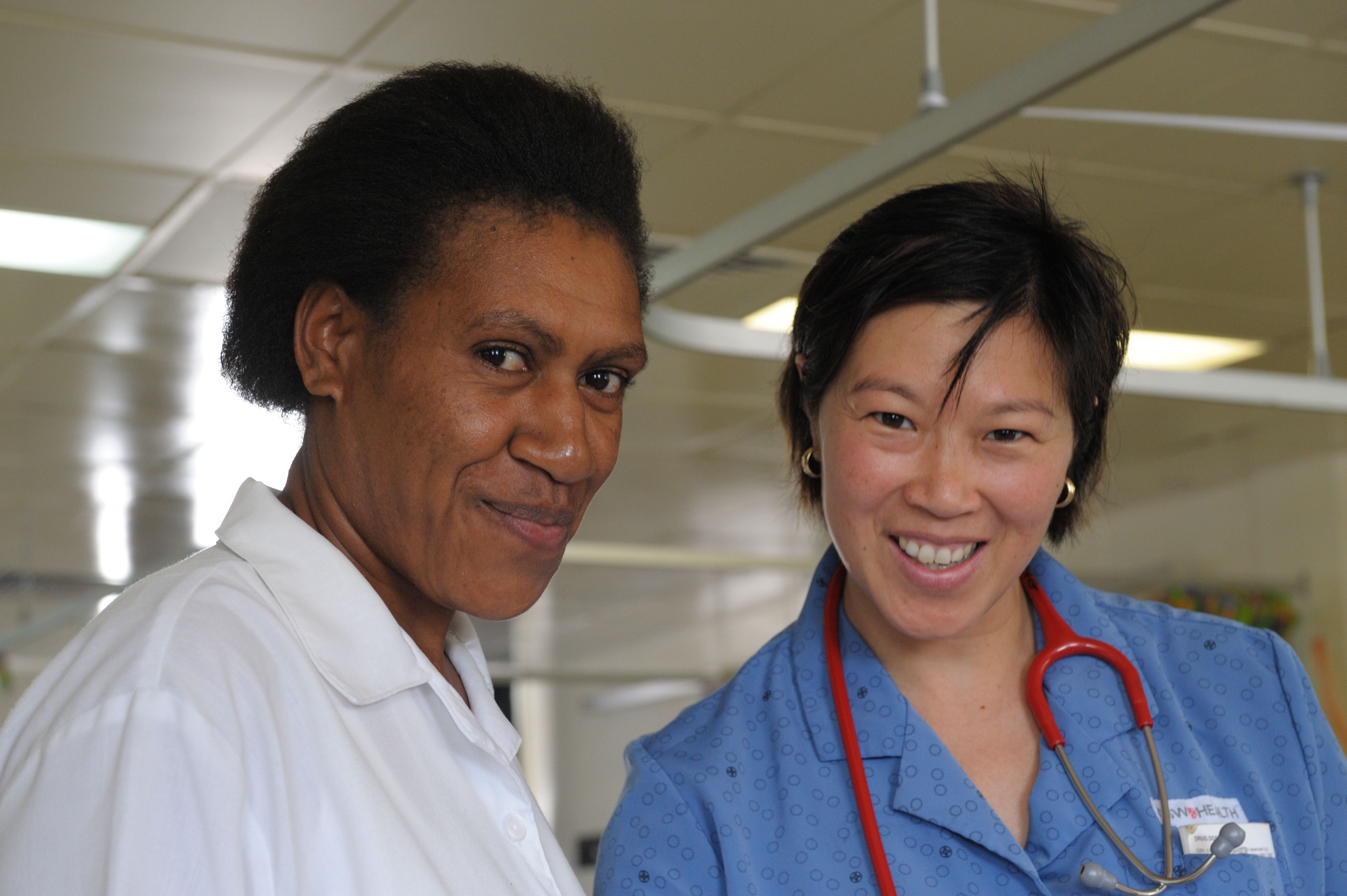 Sydney nurse Nichola Tsang (R), and Waso Serere (L). Port Moresby General Hospital, Papua New Guinea.